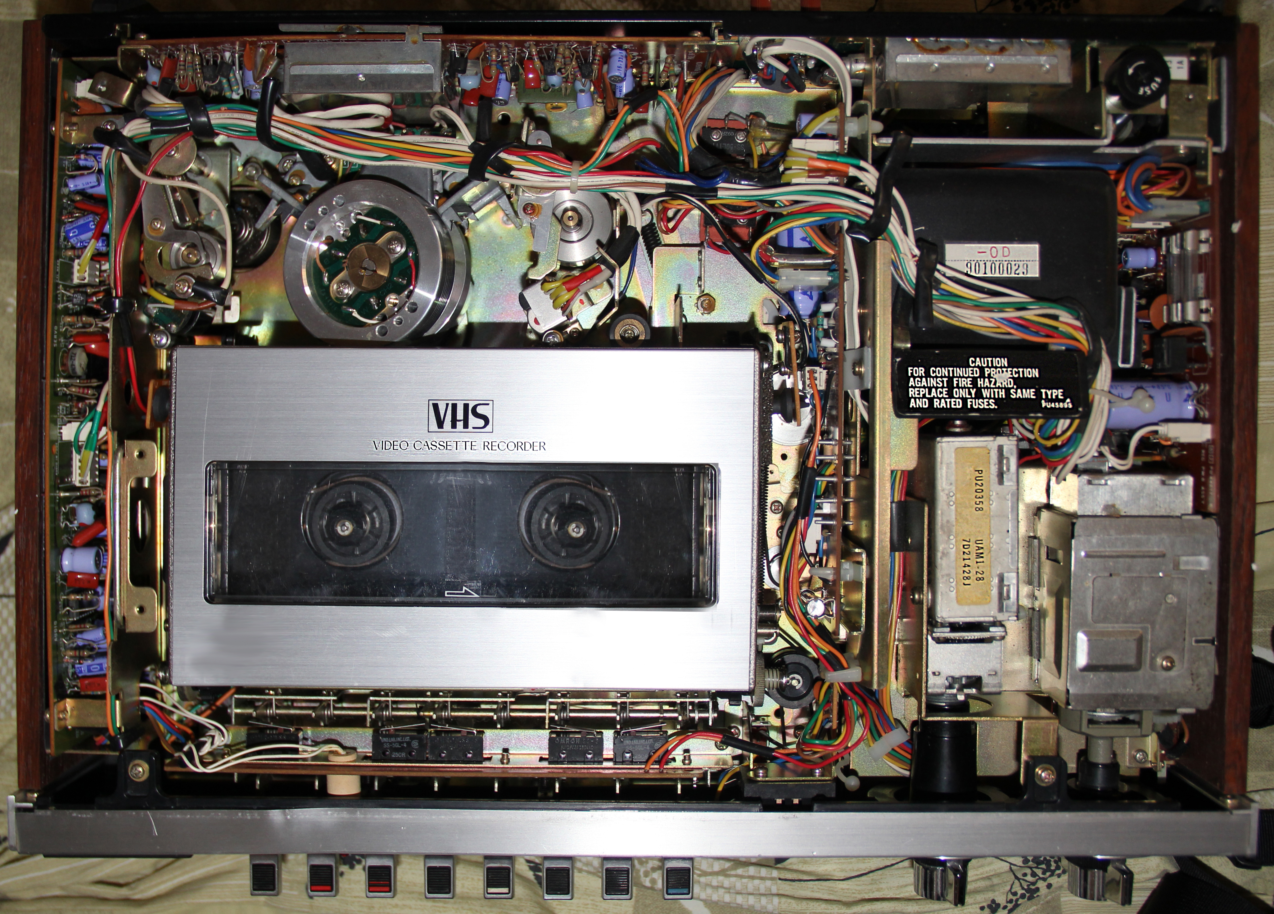 This image shows the inside of the JVC HR-3300U.